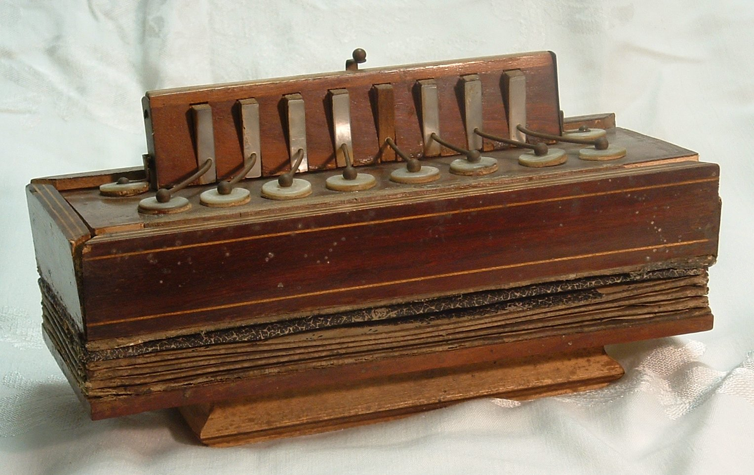 8-key bisonoric diatonic accordion (c. 1830s) from the collection of Dr. Helmi Strahl Harrington at A World of Accordions Museum in Superior, Wisconsin. Photo by Henry Doktorski (2005).